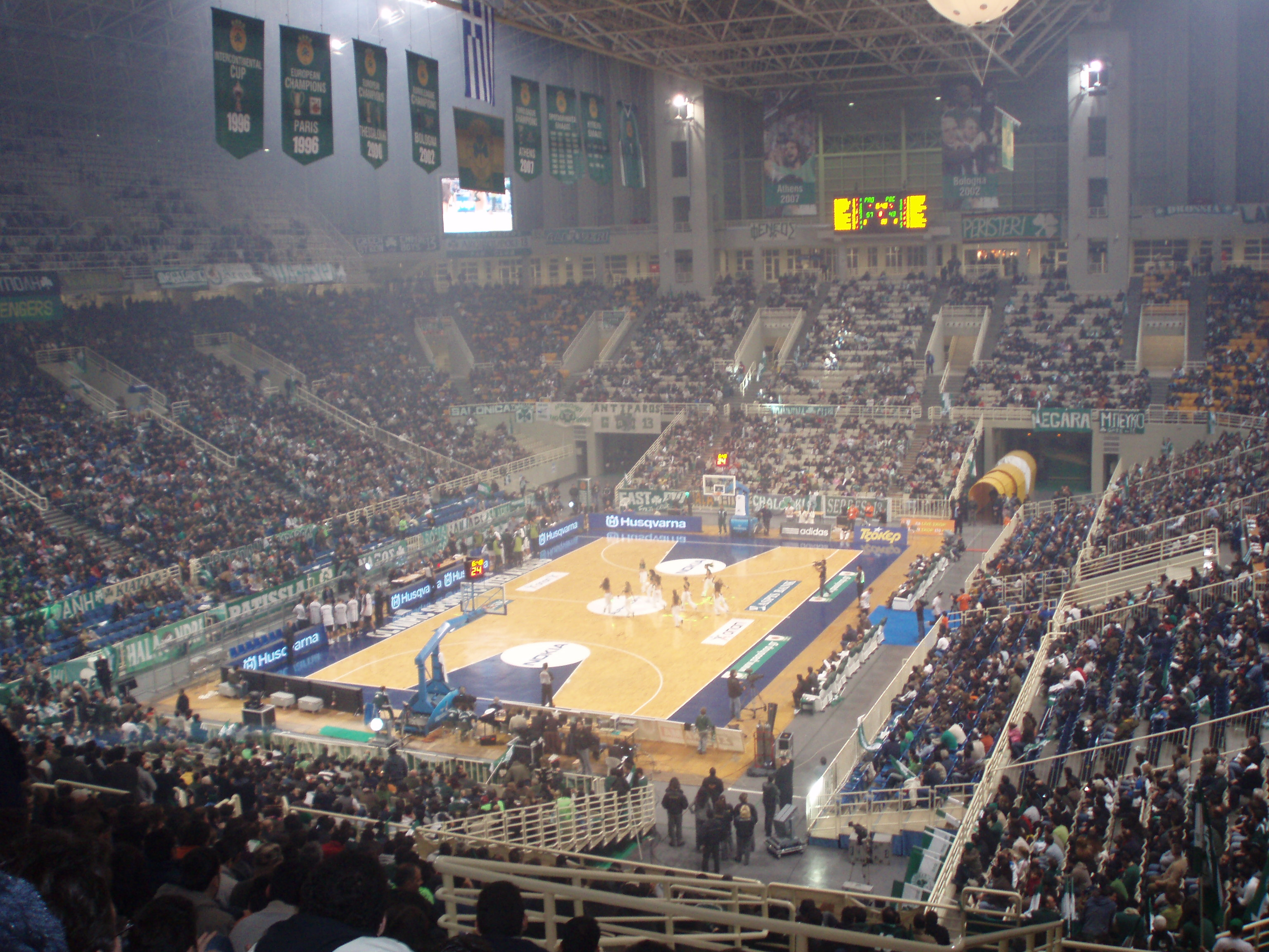 Athens Olympic Indoor Hall